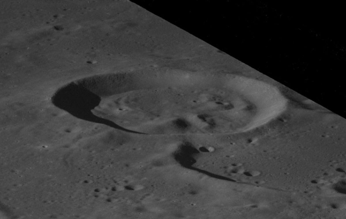 Oblique view of McClure crater, on the moon, facing south. Black field in upper right is the edge of the original photo.